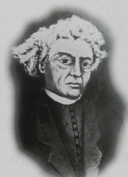 Tomaš Mikloušić (1767-1833) Kajkavian Croatian priest and wirter